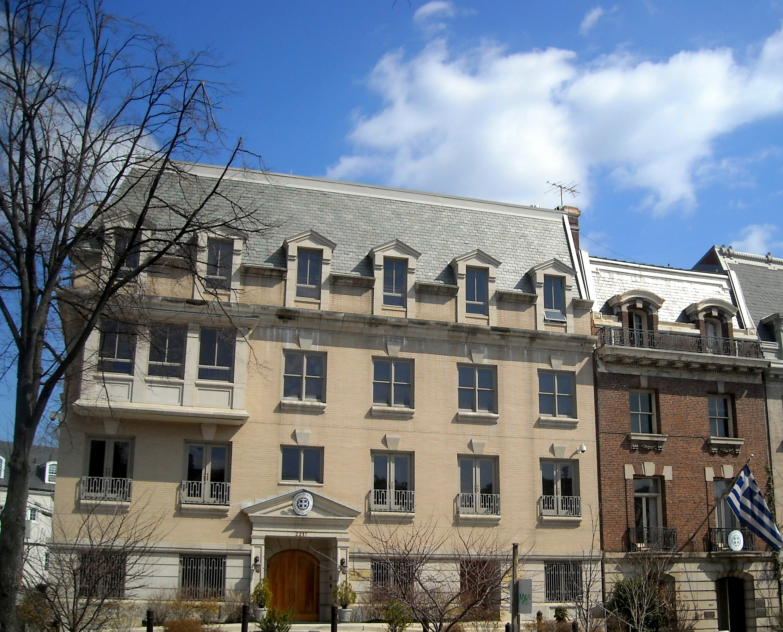 The Embassy of Greece (Press & Communications Office, Education Office, Consular Office, and Economic & Commercial Affairs Office; two of four buildings which comprise the Greek embassy complex) located on Embassy Row at 2211 (right) & 2217 (left) Massachusetts Avenue, NW in the Sheridan-Kalorama neighborhood of Washington, D.C. Also known as the Irene Sheridan House (former residence of Philip Sheridan's widow; located one block east of Sheridan Circle), the building located at 2211 Massachusetts Avenue, NW was constructed in 1904 and is valued at $4,082,740. It's a contributing property to the Massachusetts Avenue Historic District and Sheridan-Kalorama Historic District. The building located at 2217 Massachusetts Avenue, NW was designed by Greek American architect Angelos Demetriou in 2006. Its 2009 property value is $2,654,650.